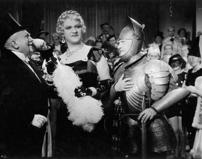 Eugeniusz Bodo (the most popular pre-war Polish actor) in woman clothes as Mae West in "Piętro wyżej" (Upstairs) film from 1937.